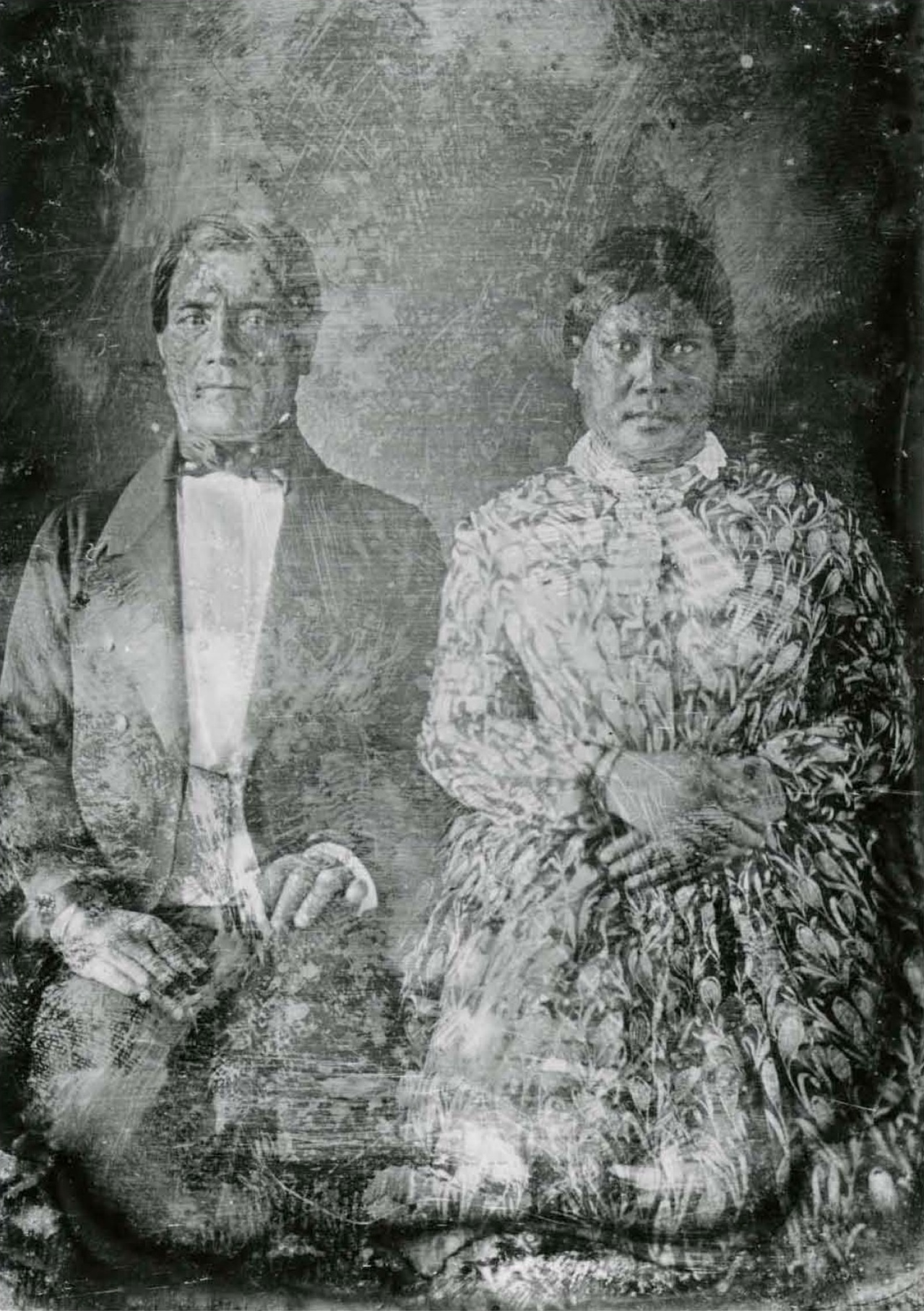 "John Papa Ii and Sarai Hiwauli; Honolulu, Hawaii." Photographer unknown, ca. 1851. Bishop Museum Archives, Honolulu.